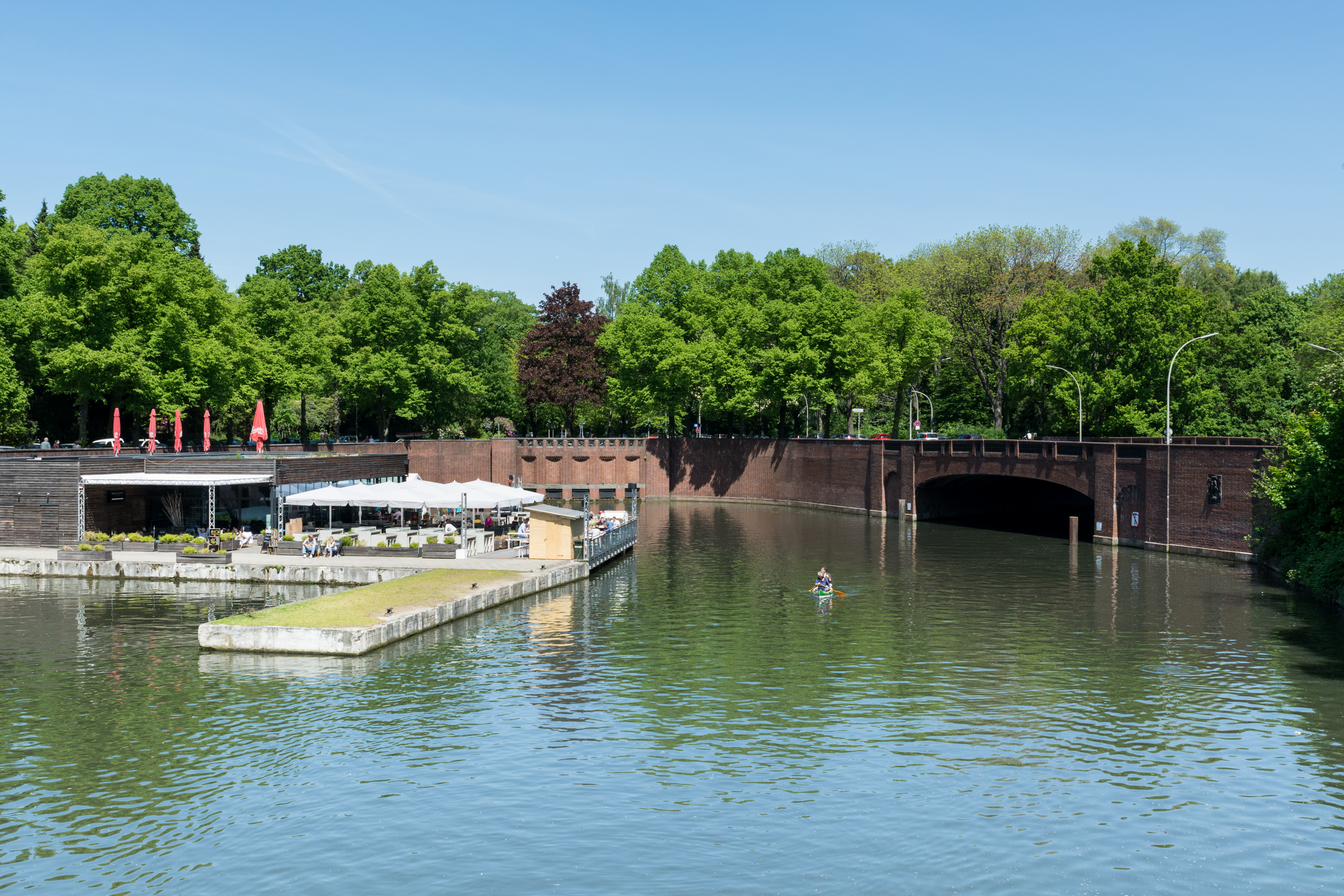 Stadtpark harbour in Hamburg. This is a photograph of an architectural monument.